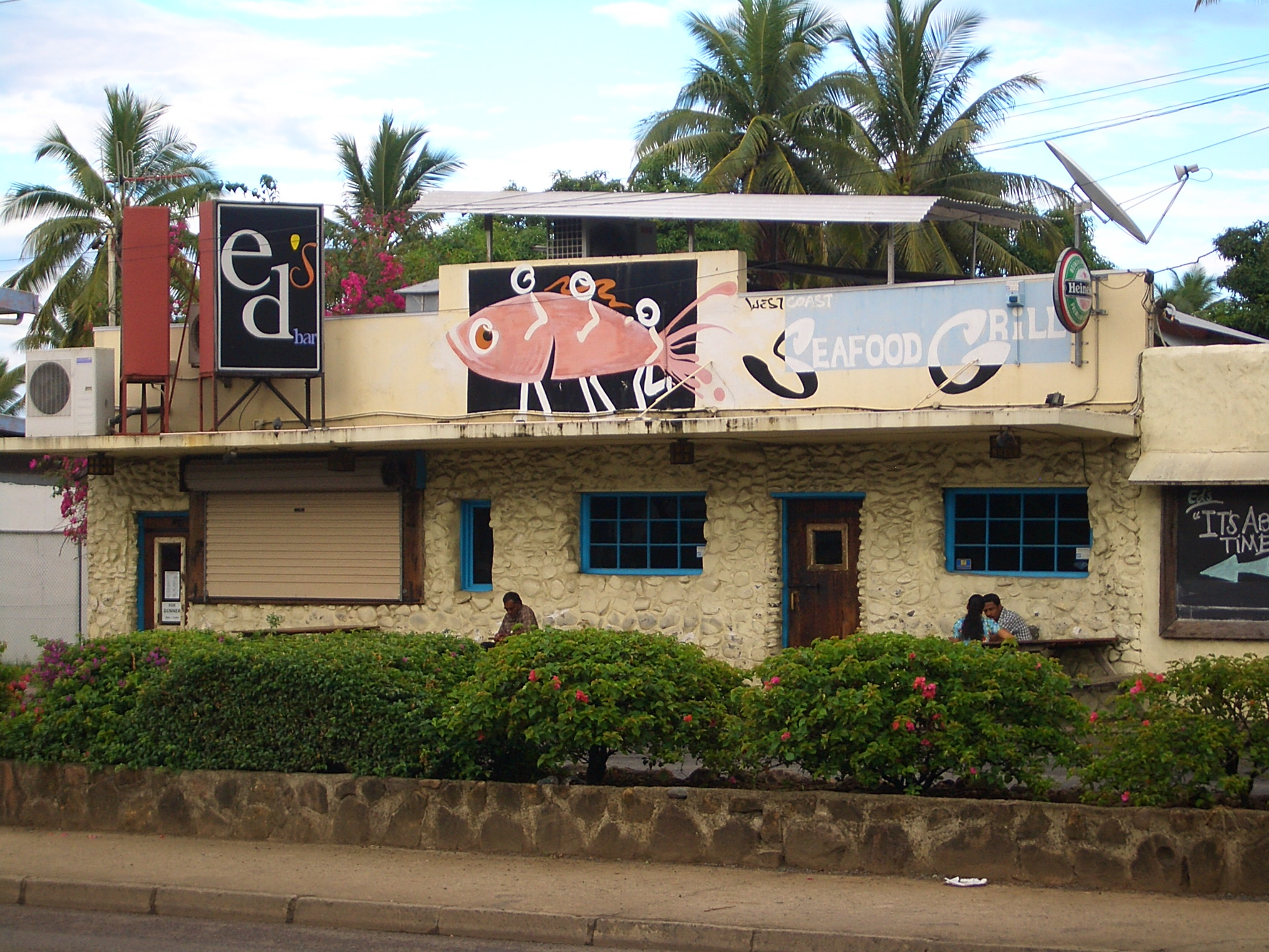 A seafood restaurant in Nadi